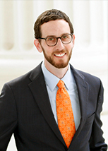 California State Senator Scott D. Wiener